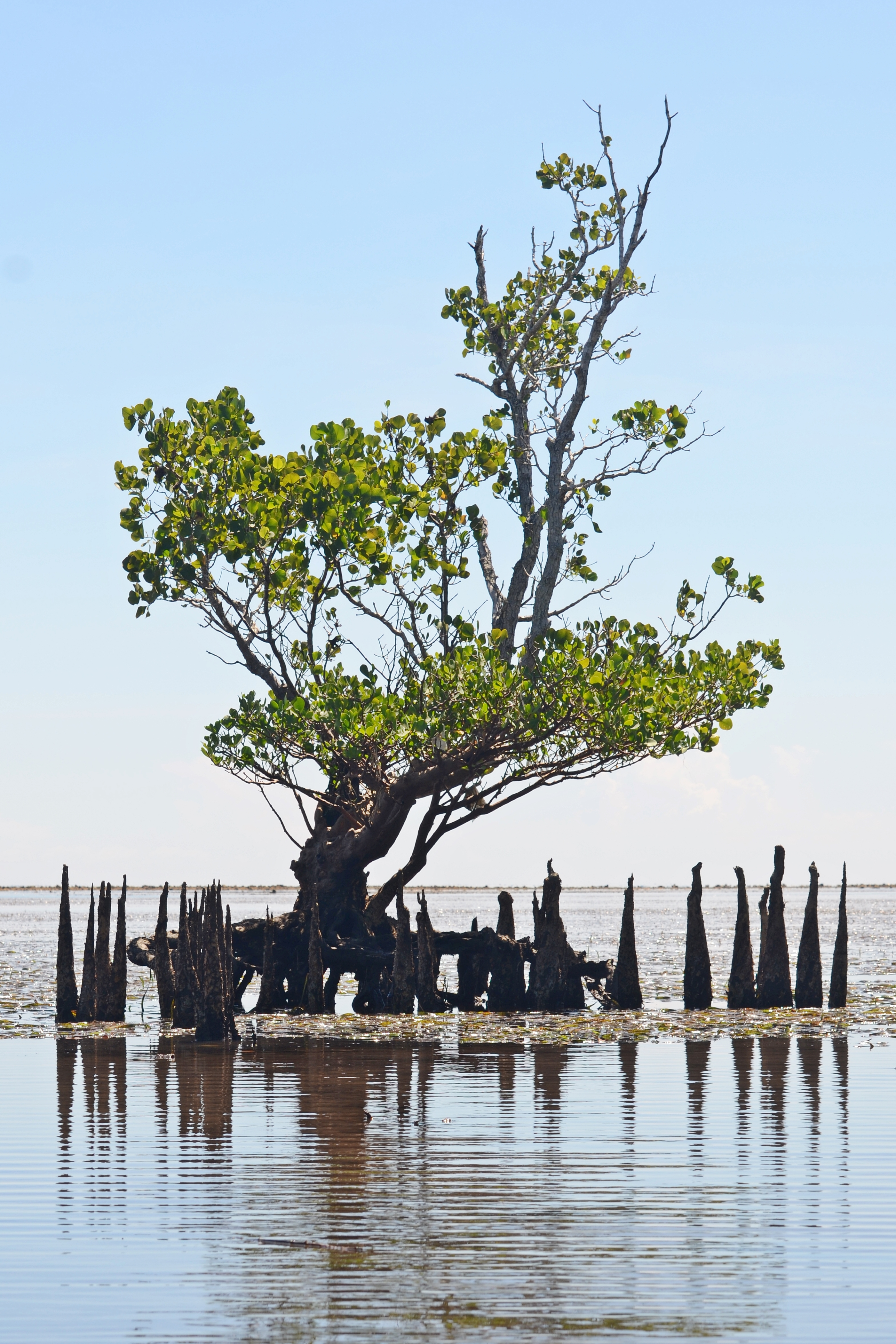 Sonneratia alba tree at Bahowo Swamp, Manado, North SulawesiBahasa Indonesia: Sonneratia alba di Rawa Pantai Bahowo, Manado, North Sulawesi.